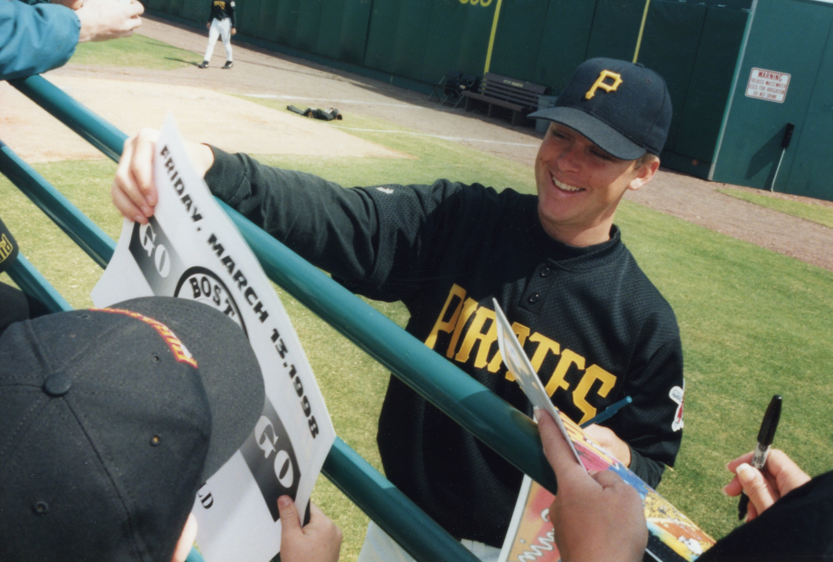 Chris Peters greets fans before a Spring Training game with the Pittsburgh Pirates in Bradenton, Florida in March, 1998